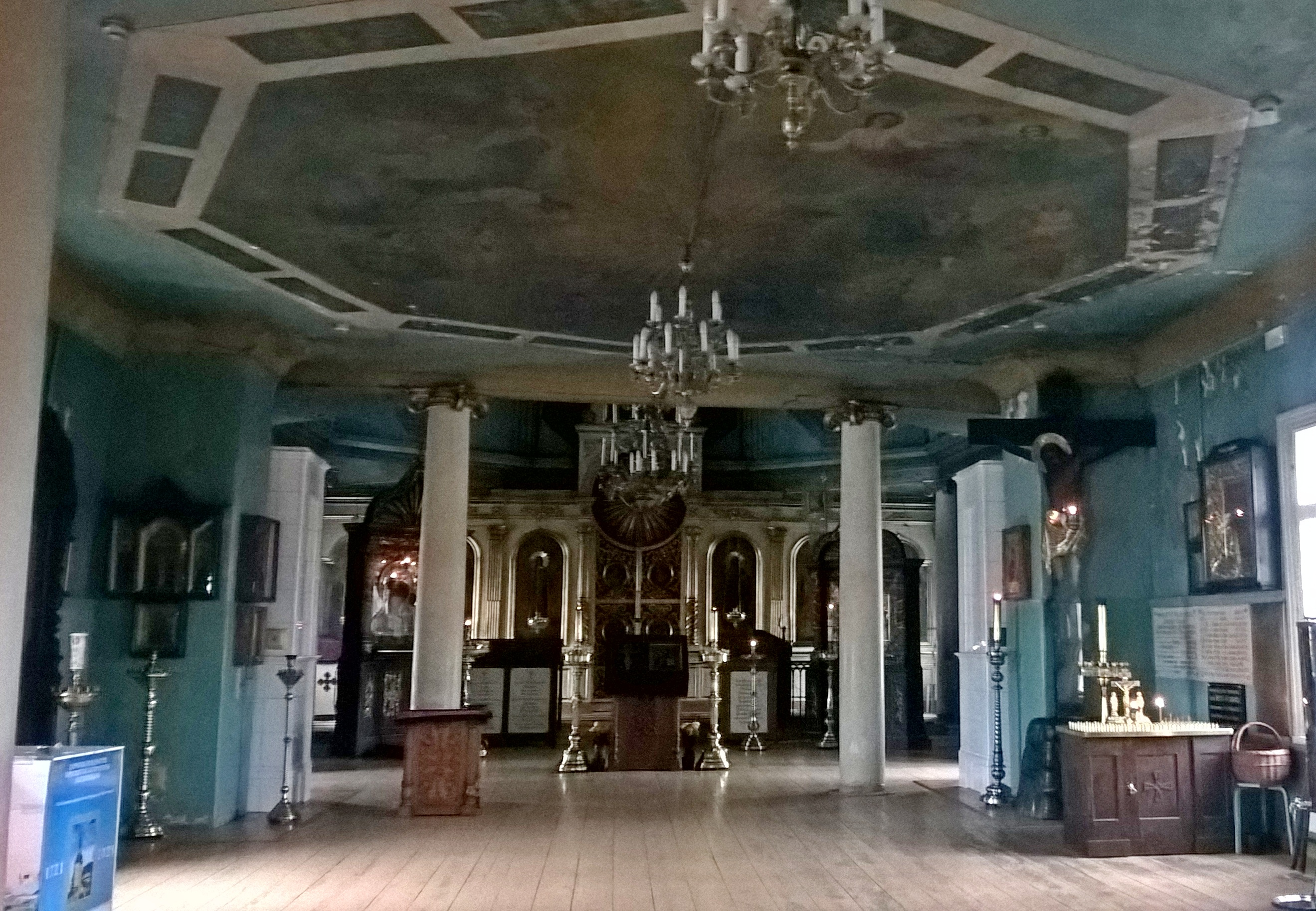 Interior of Kazan Orthodox church in Tallinn